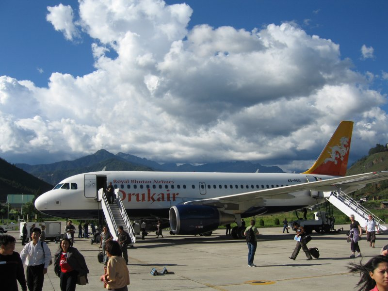 Druk Air Airbus A319-115LR aircraft (A5-RGG) at Paro Airport, Bhutan